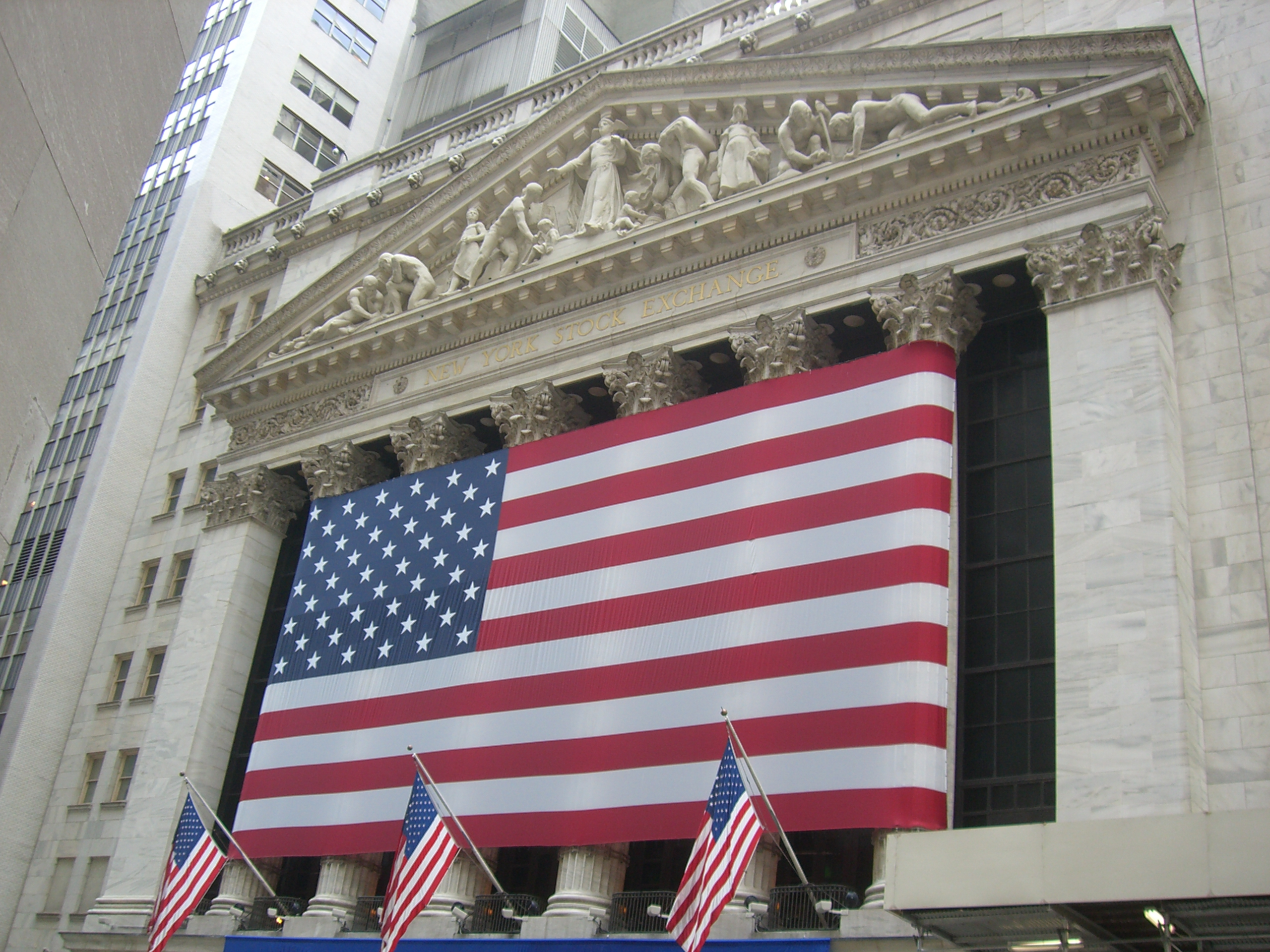 Wall Street, Manhattan, New York, USA